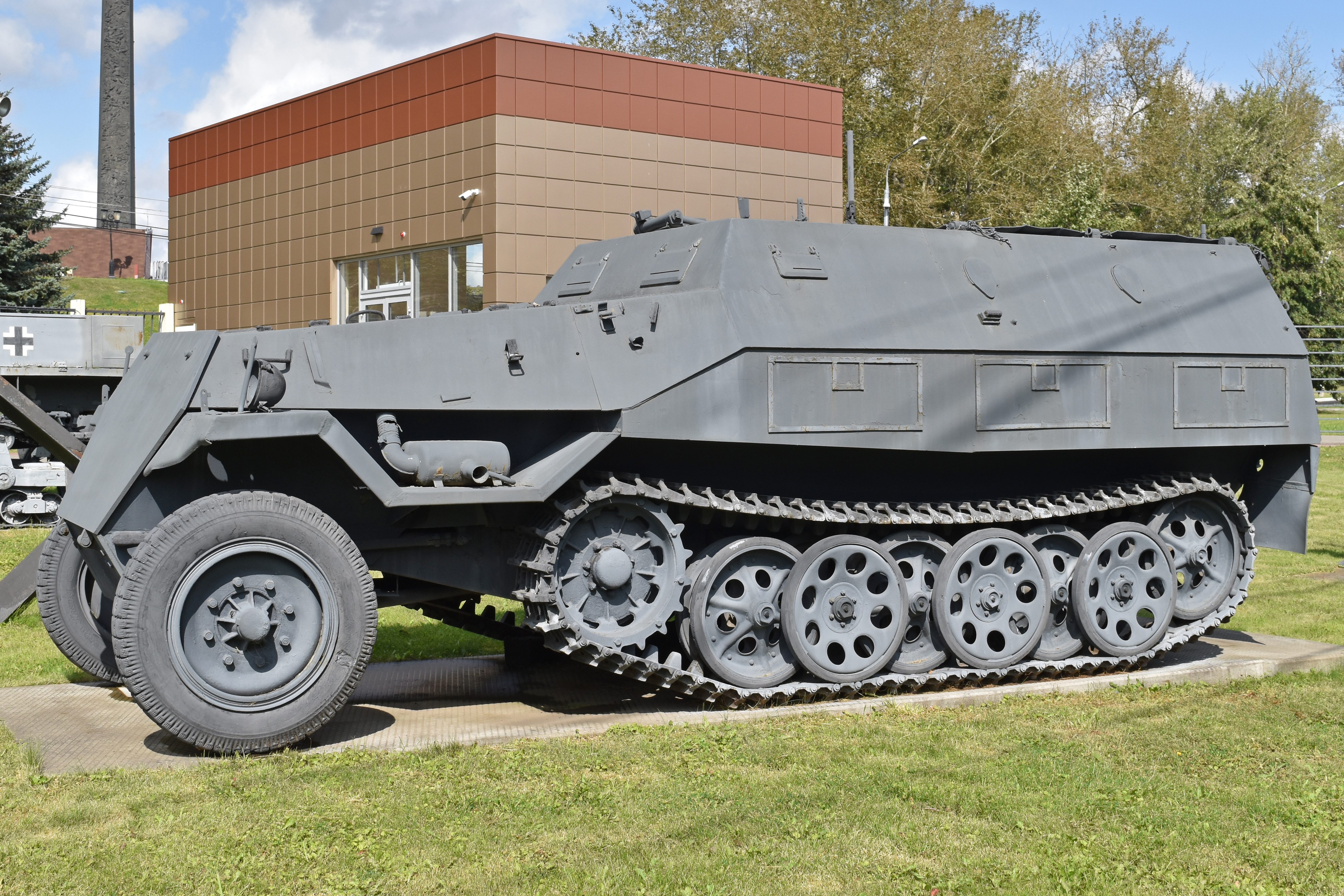 German WW2 era Half-Track Designer & Manufacturer:- Hanomag Total Production:- 15,252 Usually known just by its manufacturer name, the Hanomag was used on all fronts and was a familiar site throughout WW2. This seemingly original example is on display in ‘Victory Park’, Museum of the Great Patriotic War, Poklonnaya Hill, Moscow, Russia. 26th August 2017